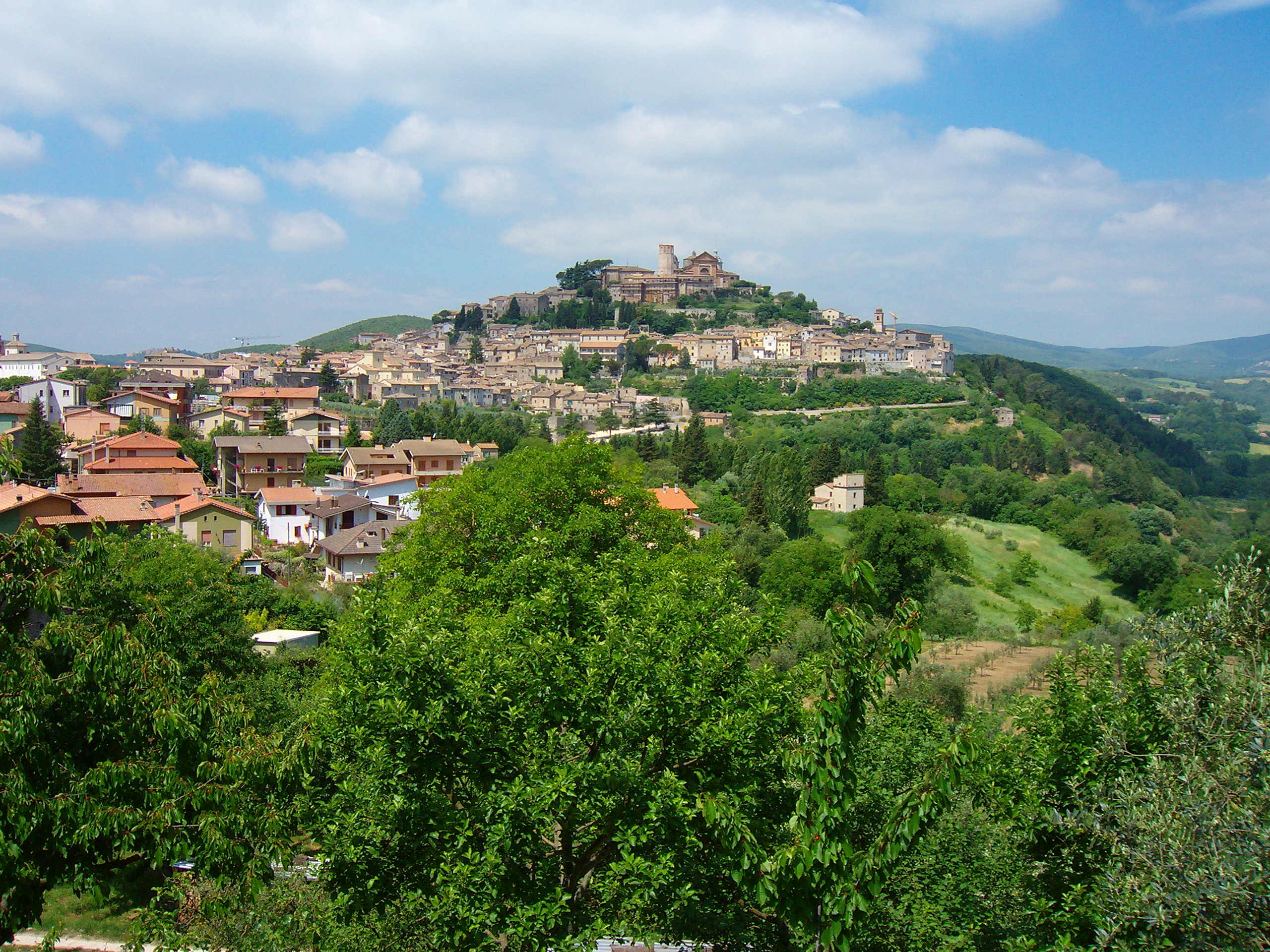 Photo by me, November 2006